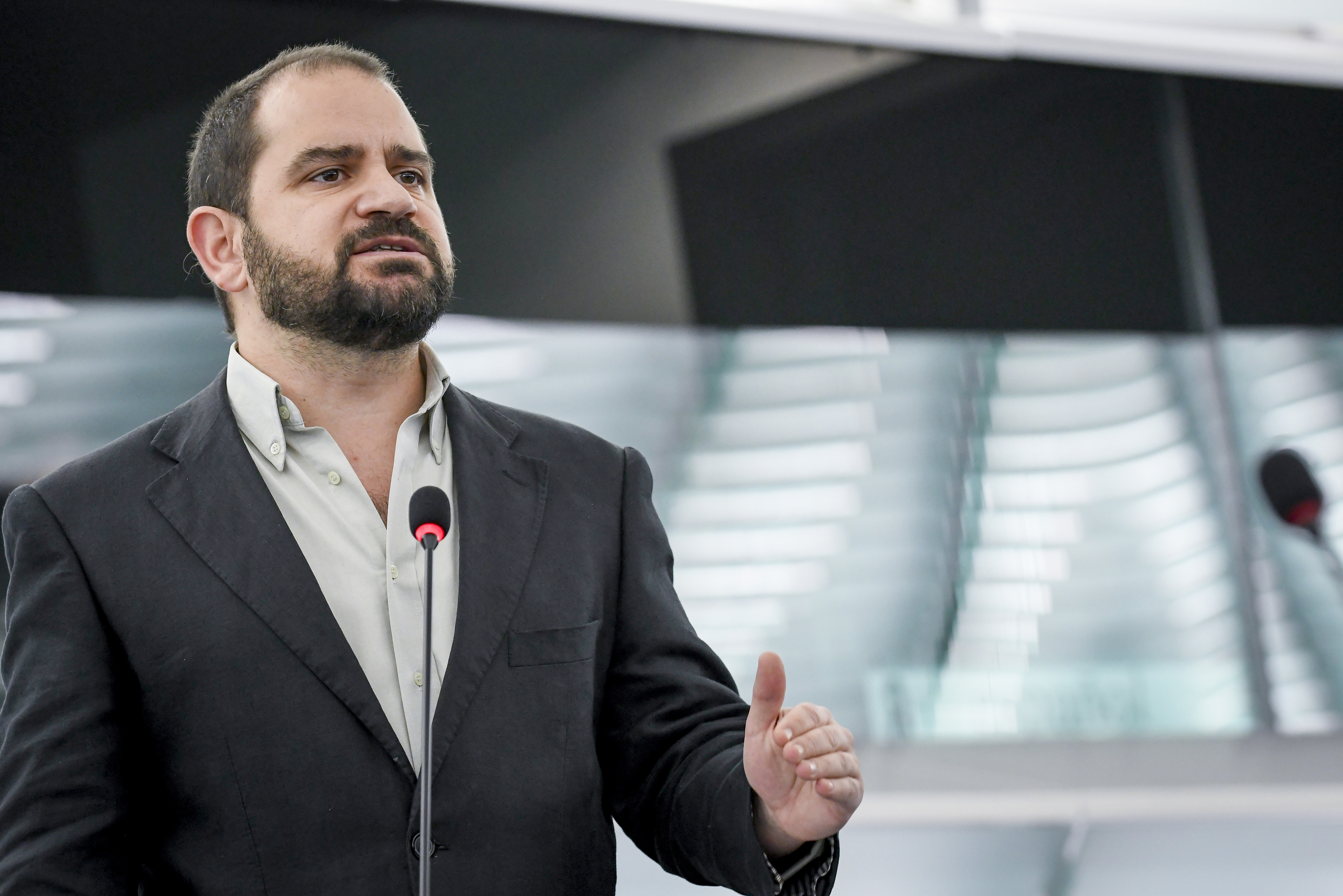 EP Plenary session - Institutions and bodies in the Economic and Monetary Union: Preventing post-public employment conflicts of interest